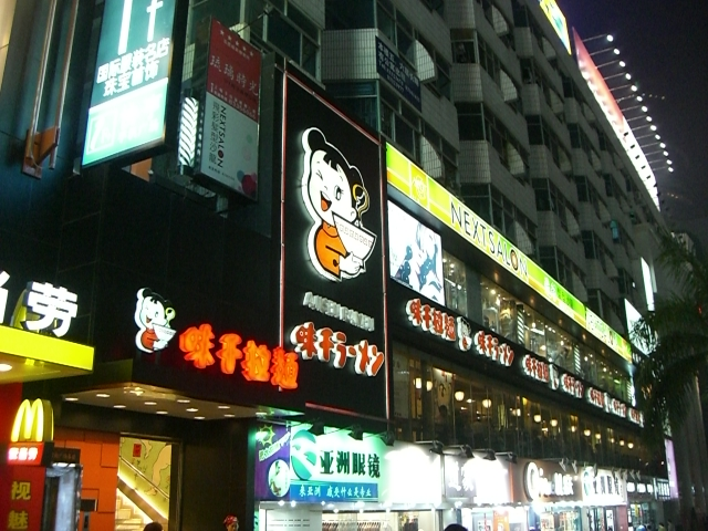 Ramen shop Ajisen in Shenzhen, China